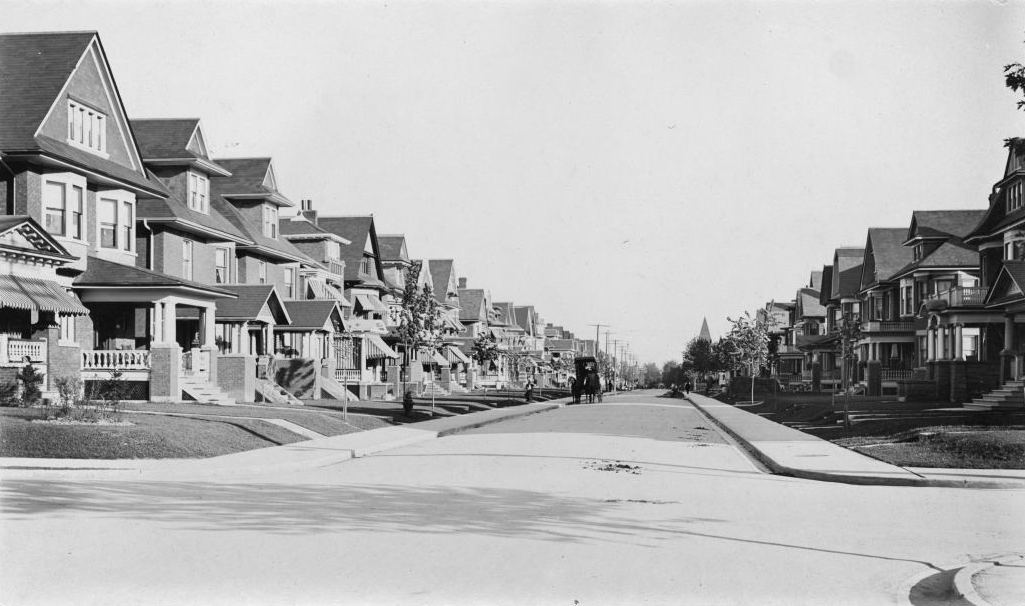 Palmerston Avenue, looking south from Harbourd Street This image is available from the City of Toronto Archives, listed under the archival citation Fonds 1244, item 7200. This tag does not indicate the copyright status of the attached work. A normal copyright tag is still required. See Commons:Licensing for more information.